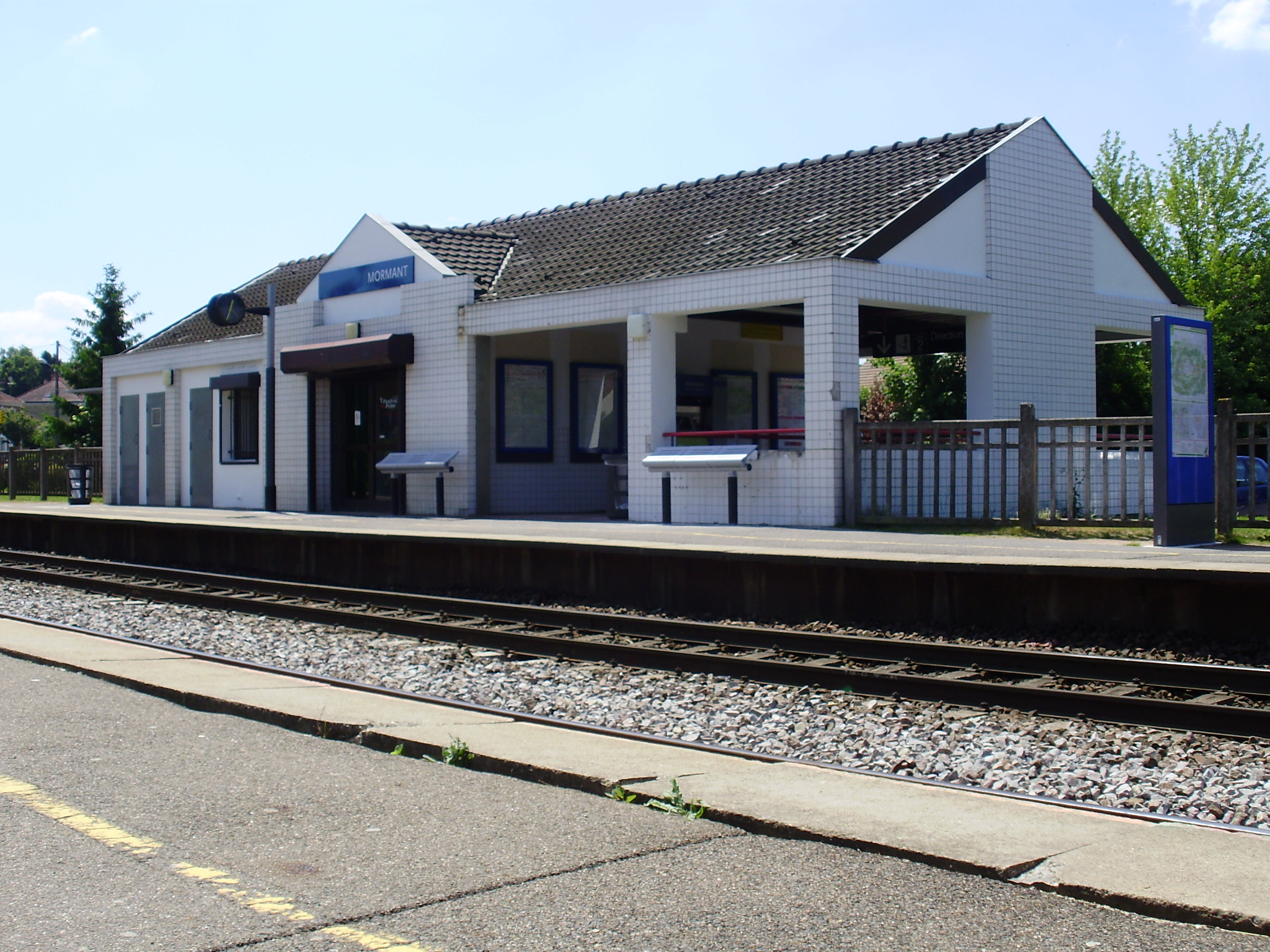 Mormant station, Seine-et-Marne, France (view of the building from the platform to Longueville)